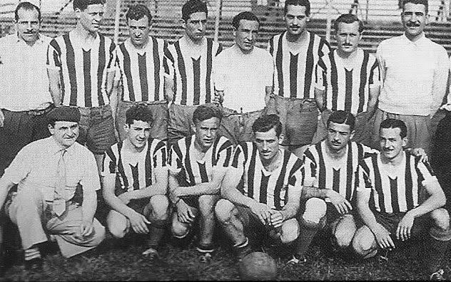 El Porvenir of Argentina, 1943 Primera C champion.